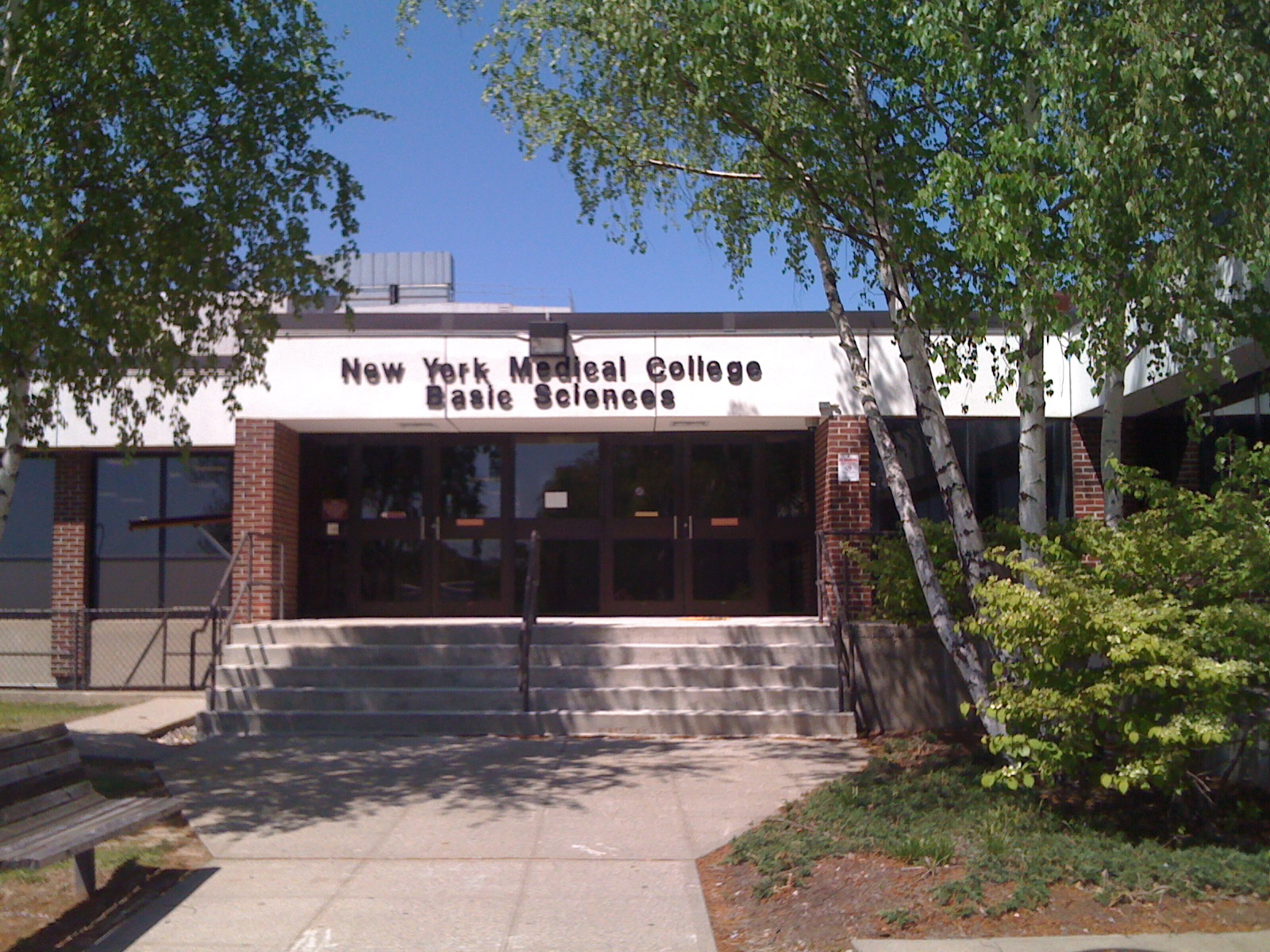 NYMC Basic Sciences Entrence